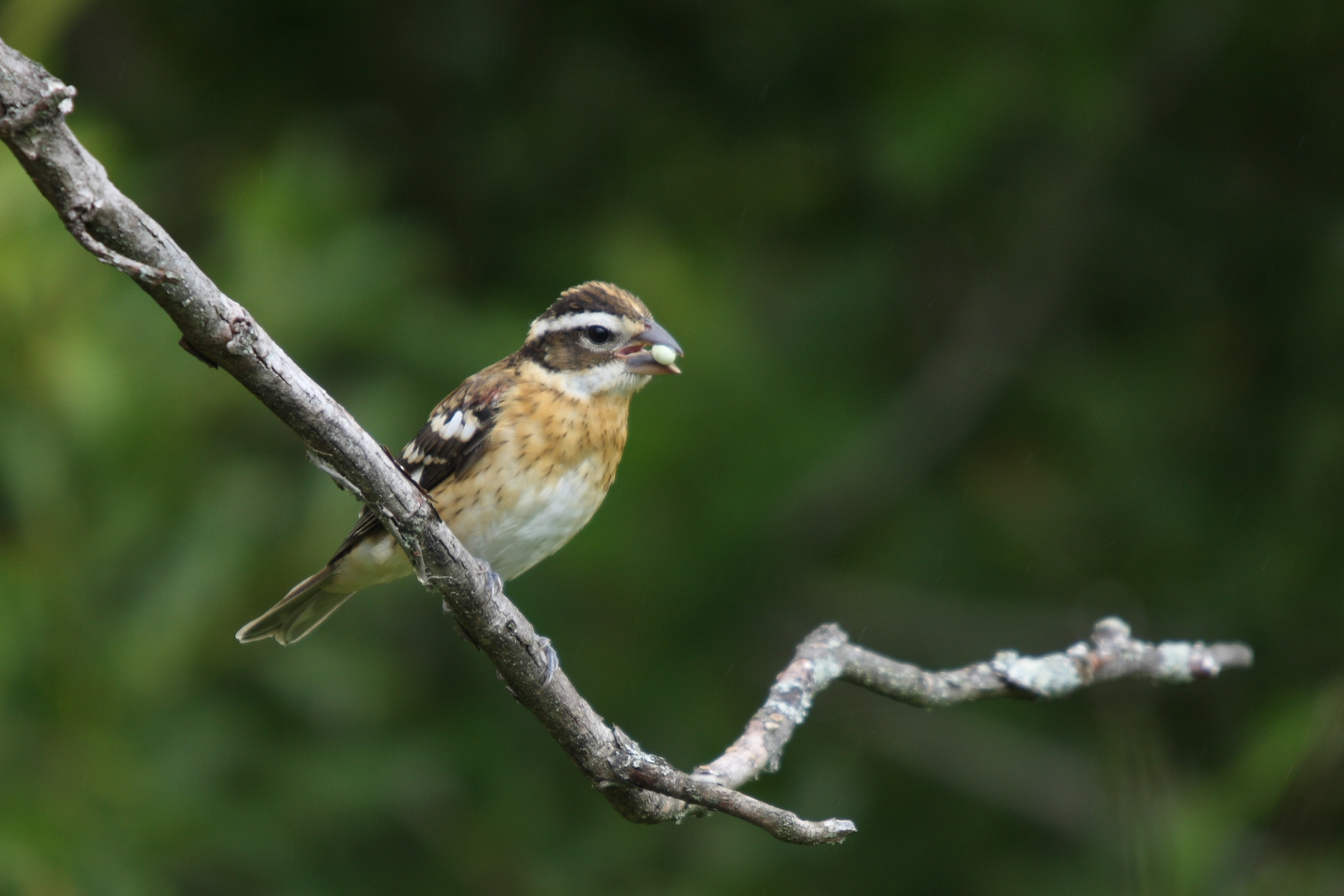 Rose-breasted Grosbeak, male immature, Cap Tourmente National Wildlife Area, Quebec, Canada